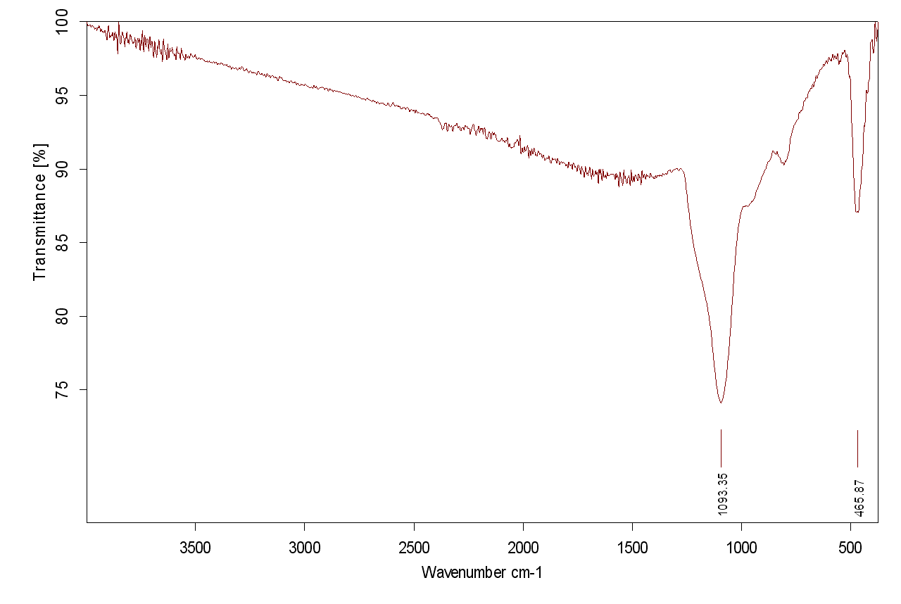 Infrared spectrum of Copper(I) chloride. Measured at University of Graz.